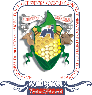 Escudo de escárcega